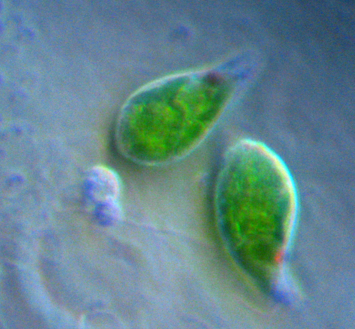 Euglena freshwater single celled organisms